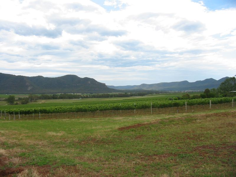 In the Australian wine region of the Hunter Valley in New South Wales